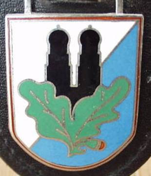 561st Armored Grenadiers Battalion